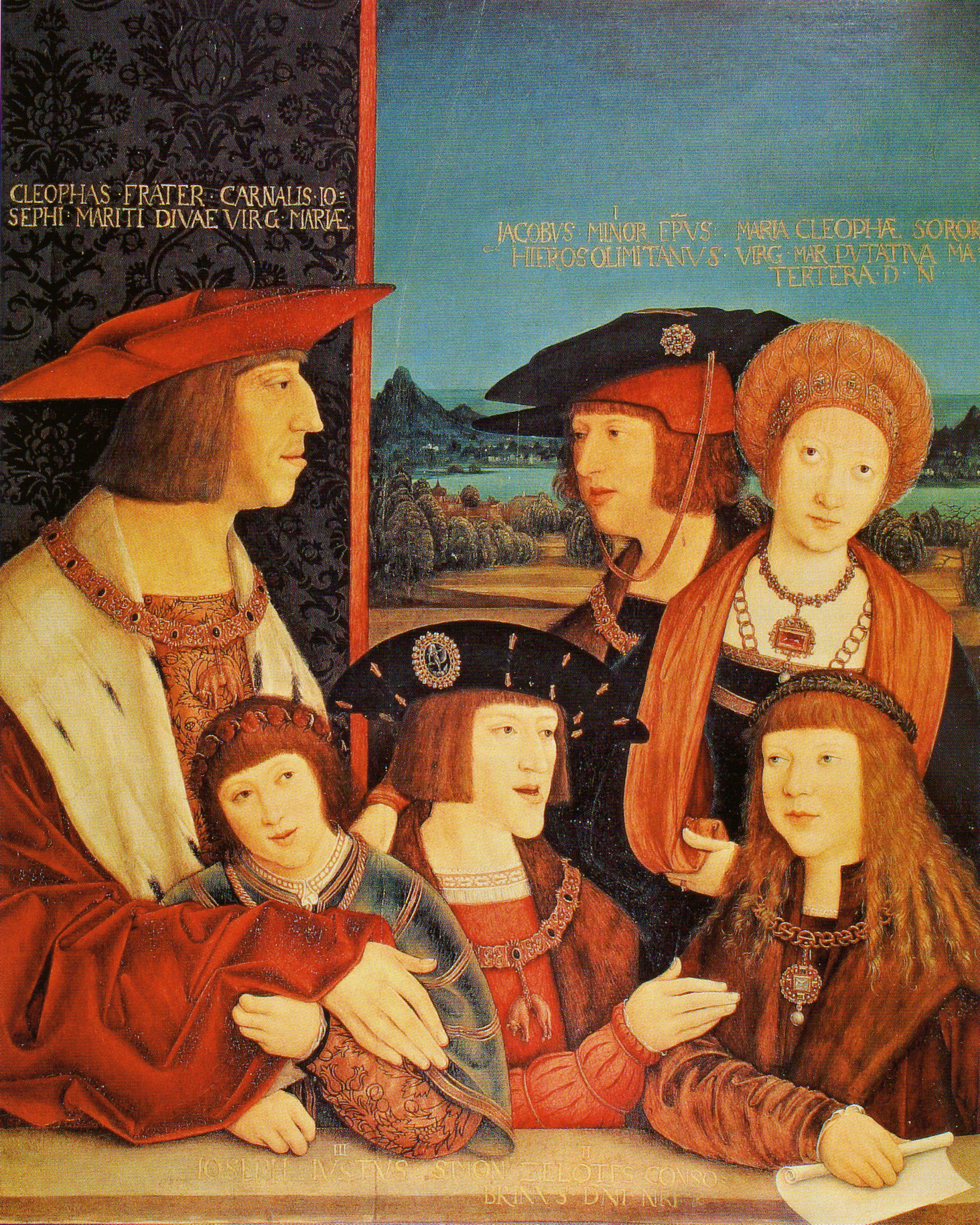 Emperor Maximilian I with his son Philip the Fair, his wife Mary of Burgundy, his grandsons Ferdinand I and Charles V, and Louis II of Hungary (husband of his granddaughter Mary of Austria).